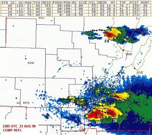 Radar image of multiple severe thunderstorms moving across Northeastern Wisconsin on August 23, 1998. (Image modified by NWS Green Bay)